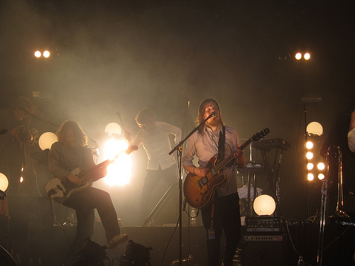 Rubik at Flow Festival 2011. Photo by Berto Garcia.